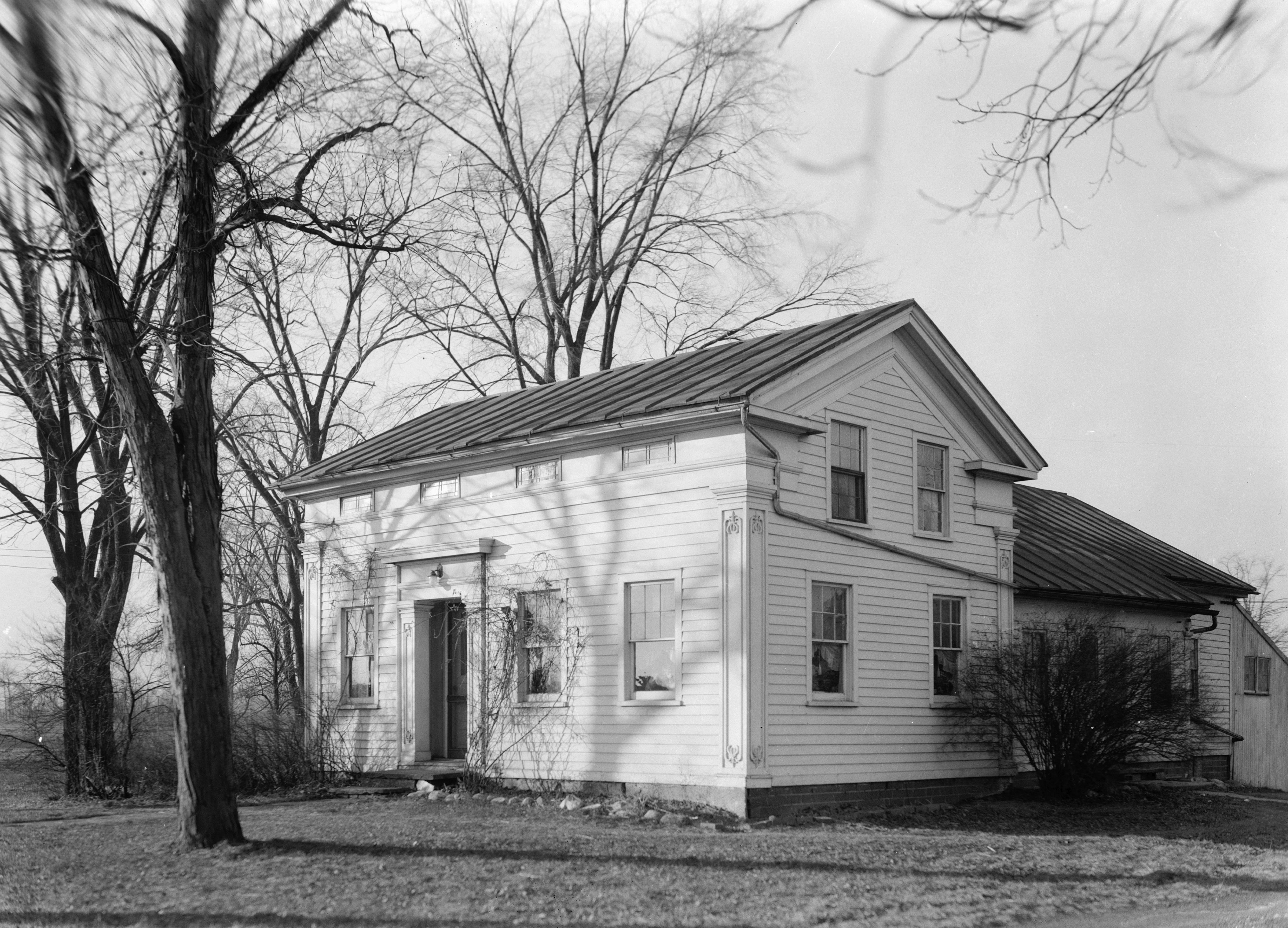 Front of the Whitney Clark House, located along State Route 58 south of Wellington in Huntington Township, Lorain County, Ohio, United States. Built in 1840, it is listed on the National Register of Historic Places.